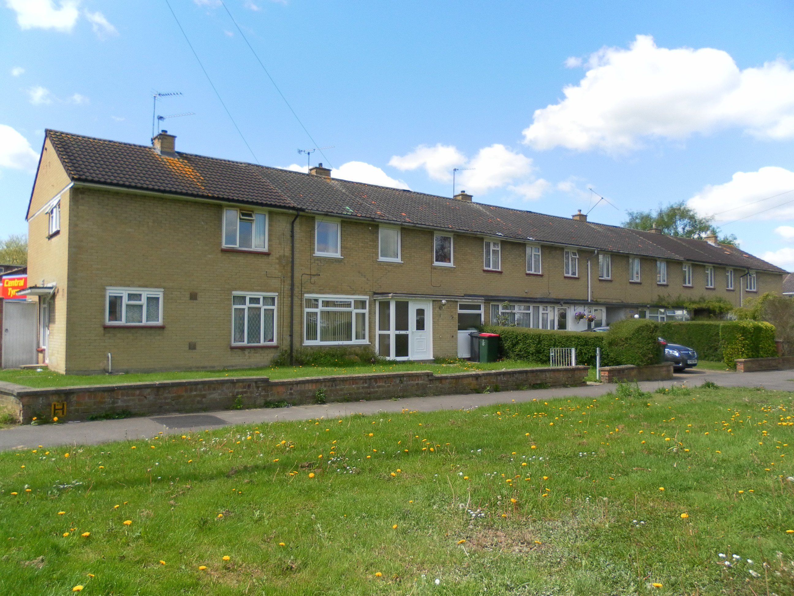 A terrace of 1950s houses on Woodfield Close in the Northgate neighbourhood of Crawley, West Sussex, England.